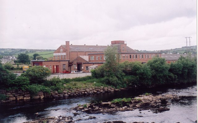 River Mourne, with Industrial Centre in background, Victoria Bridge. This stretch of Mourne river is an important angling venue.